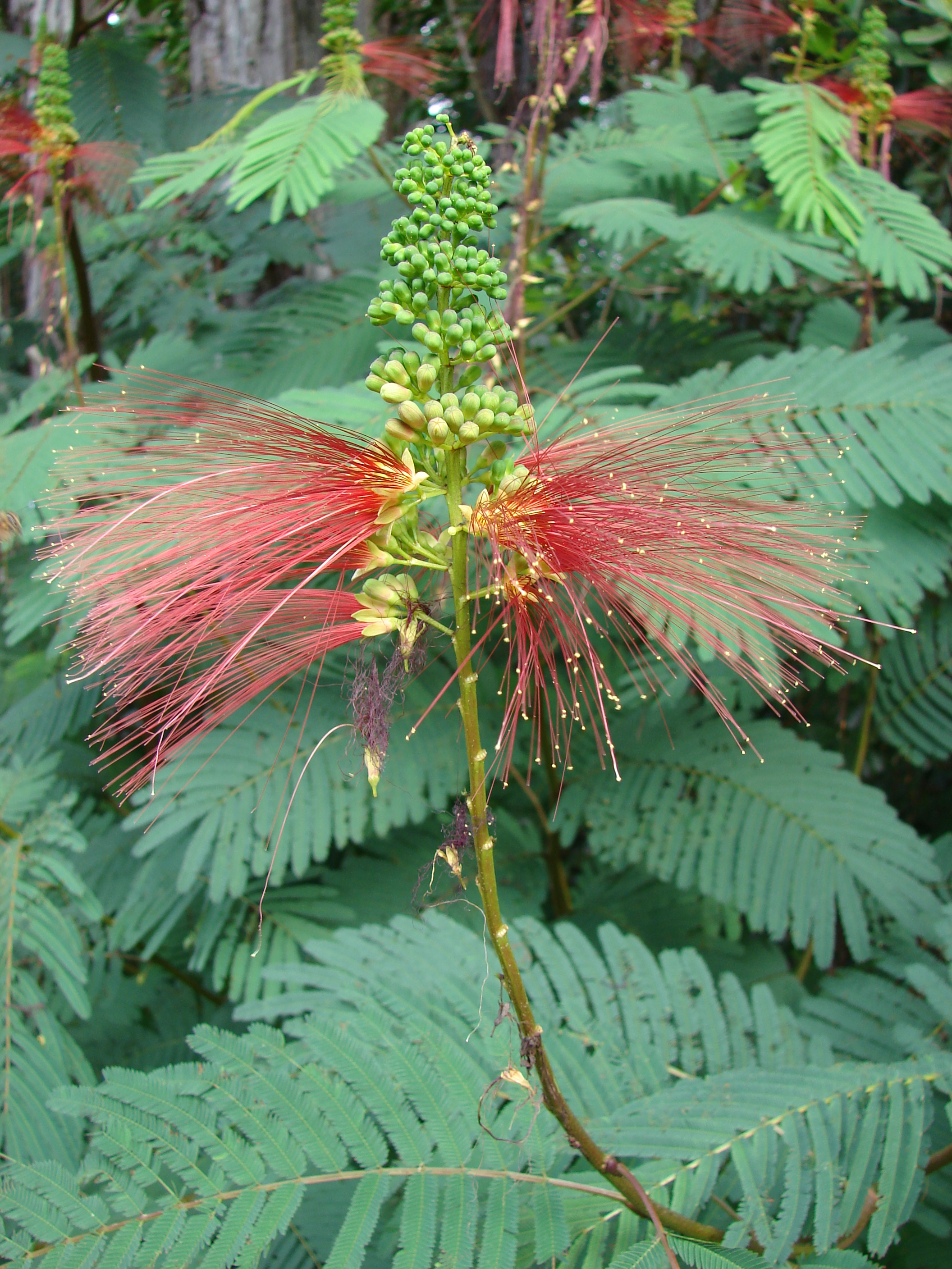 Calliandra houstoniana var. calothyrsus (flowers and leaves). Location: Maui, Ulumalu Haiku